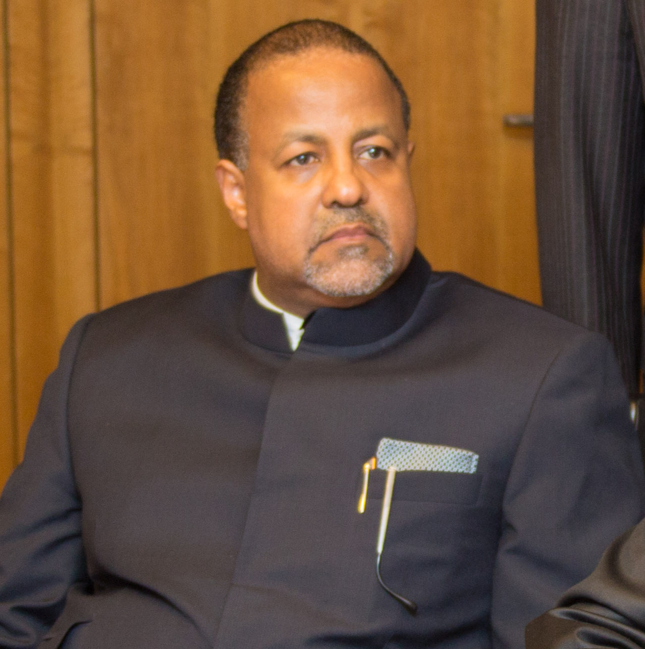 Yusuf Mohamed Ismail "Bari-Bari", former Ambassador of Somalia to the United Nations Human Rights Office in Geneva.